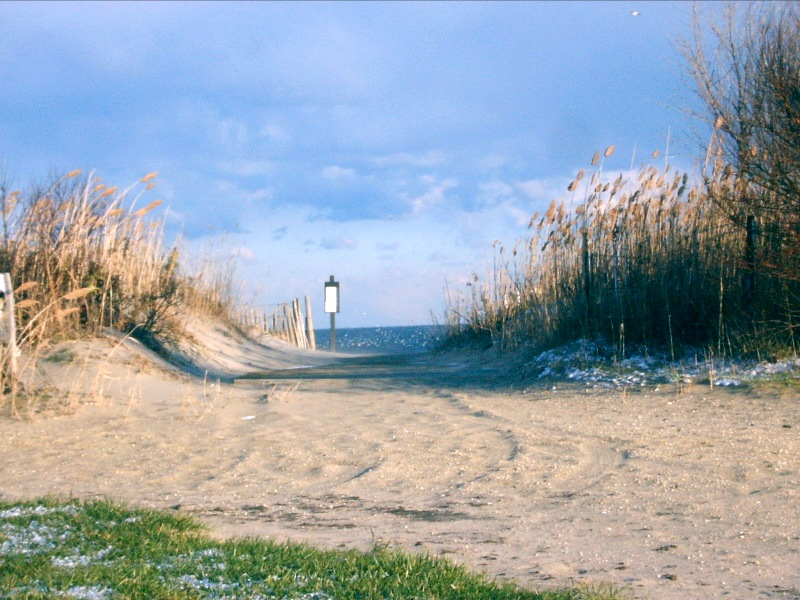 Beach in Long Branch, NJBeach in Long Branch, NJ